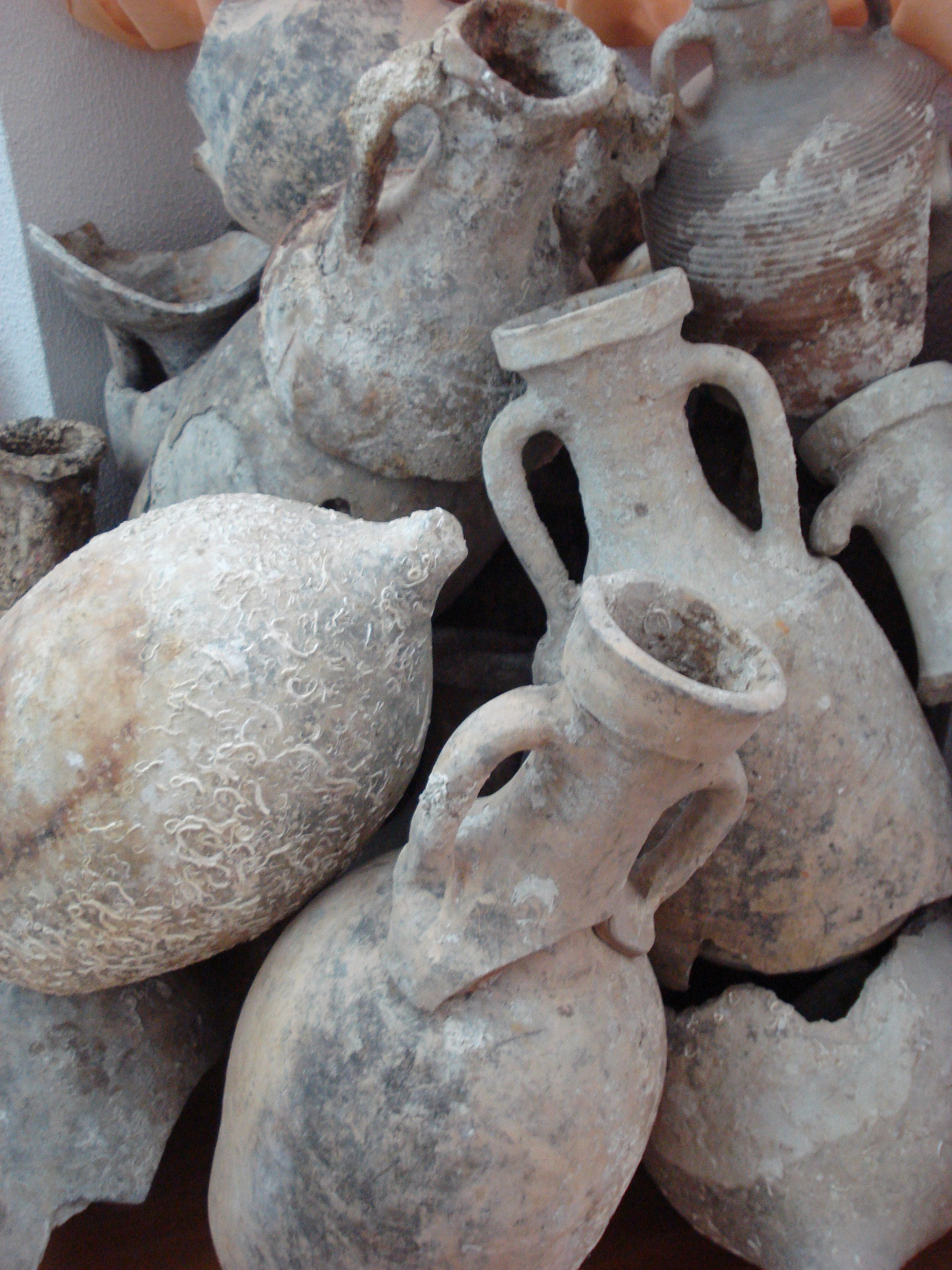 Makarska Town Museum, Croatia - amphoras